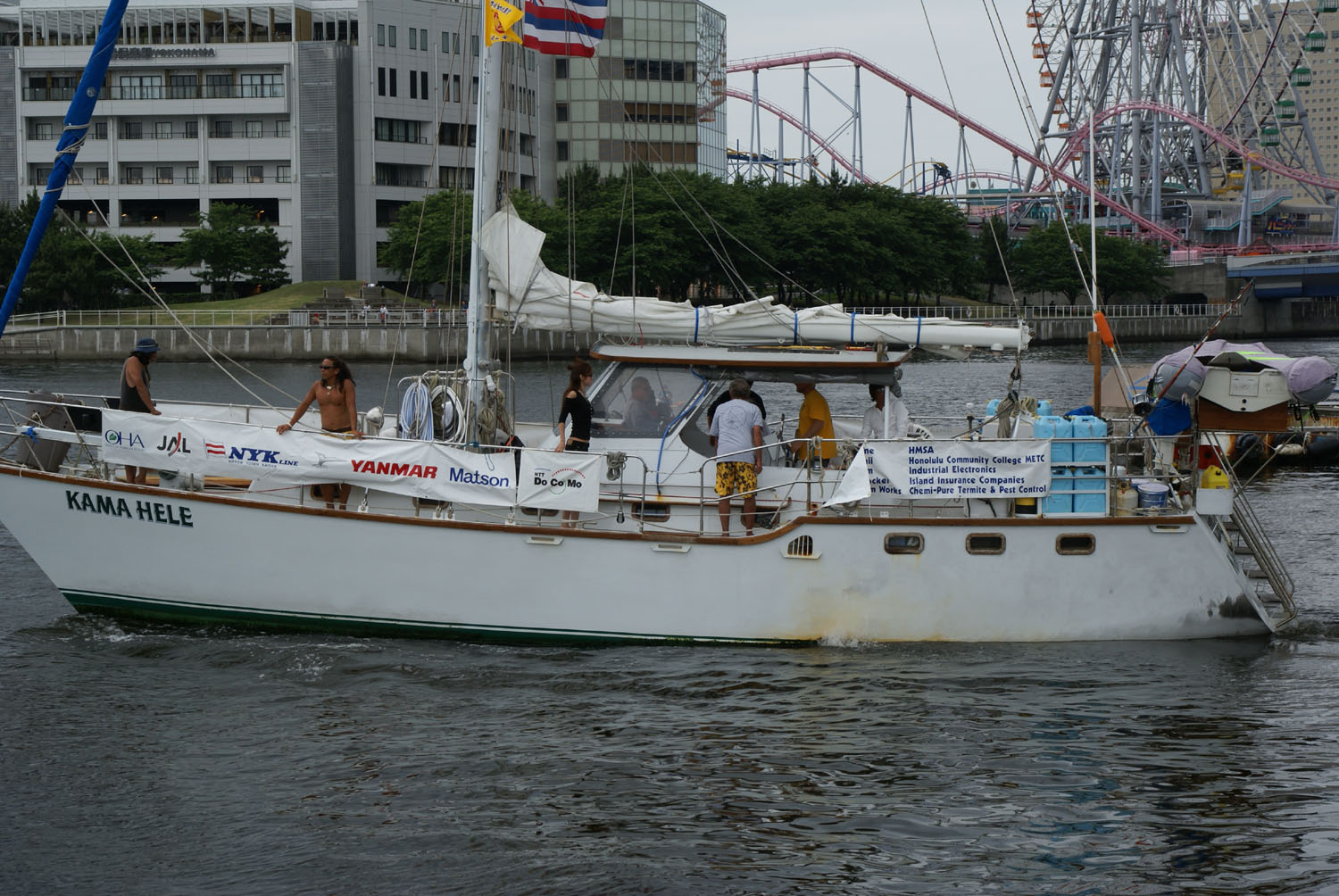 Hokule'a's escote boat Kama Hele at Yokohama Bay